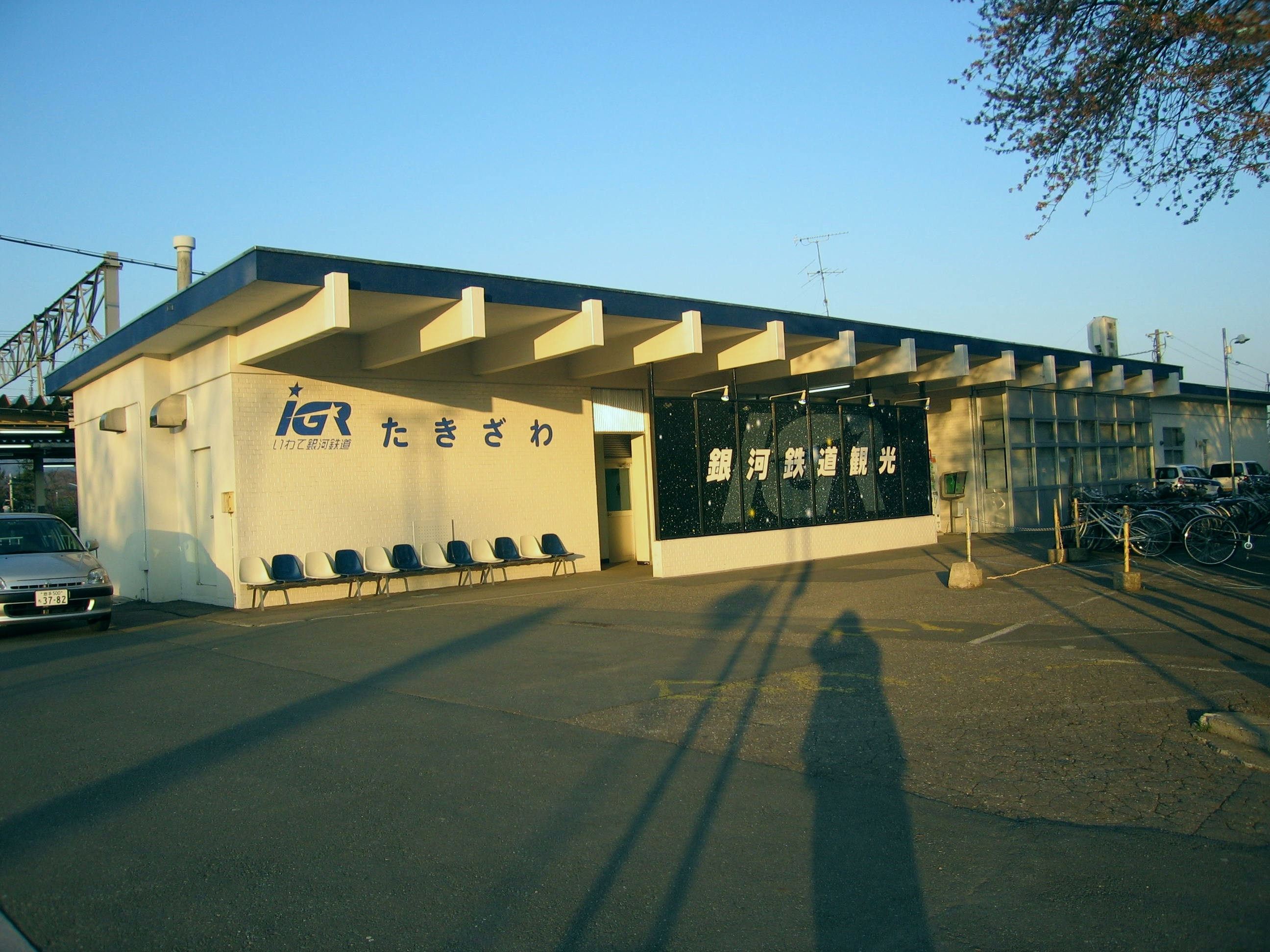 IGRいわて銀河鉄道・滝沢駅 Takizawa Station of IGR Iwate Ginga Railways. Taken on May 3, 2006